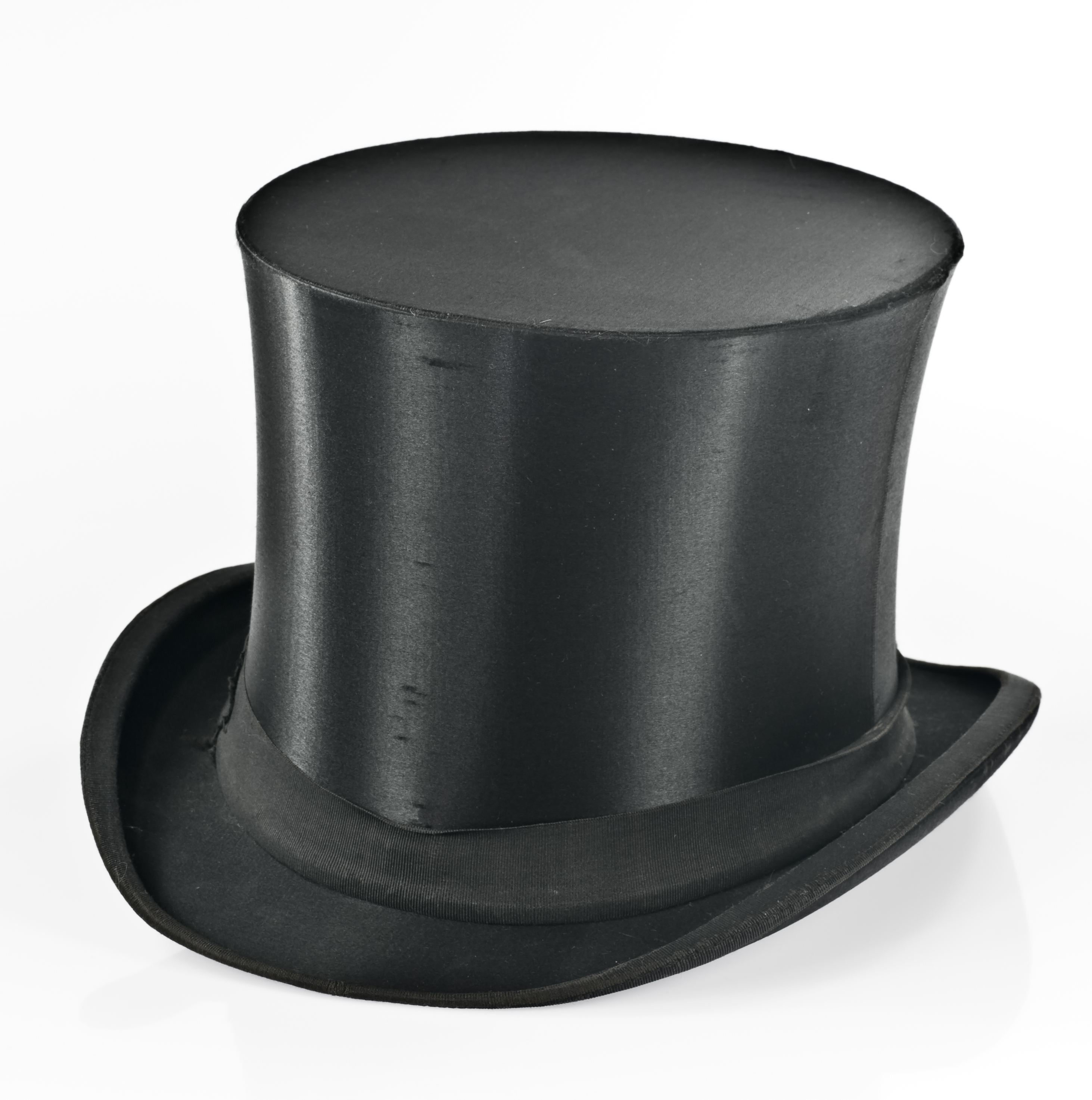 Collapsible top hat